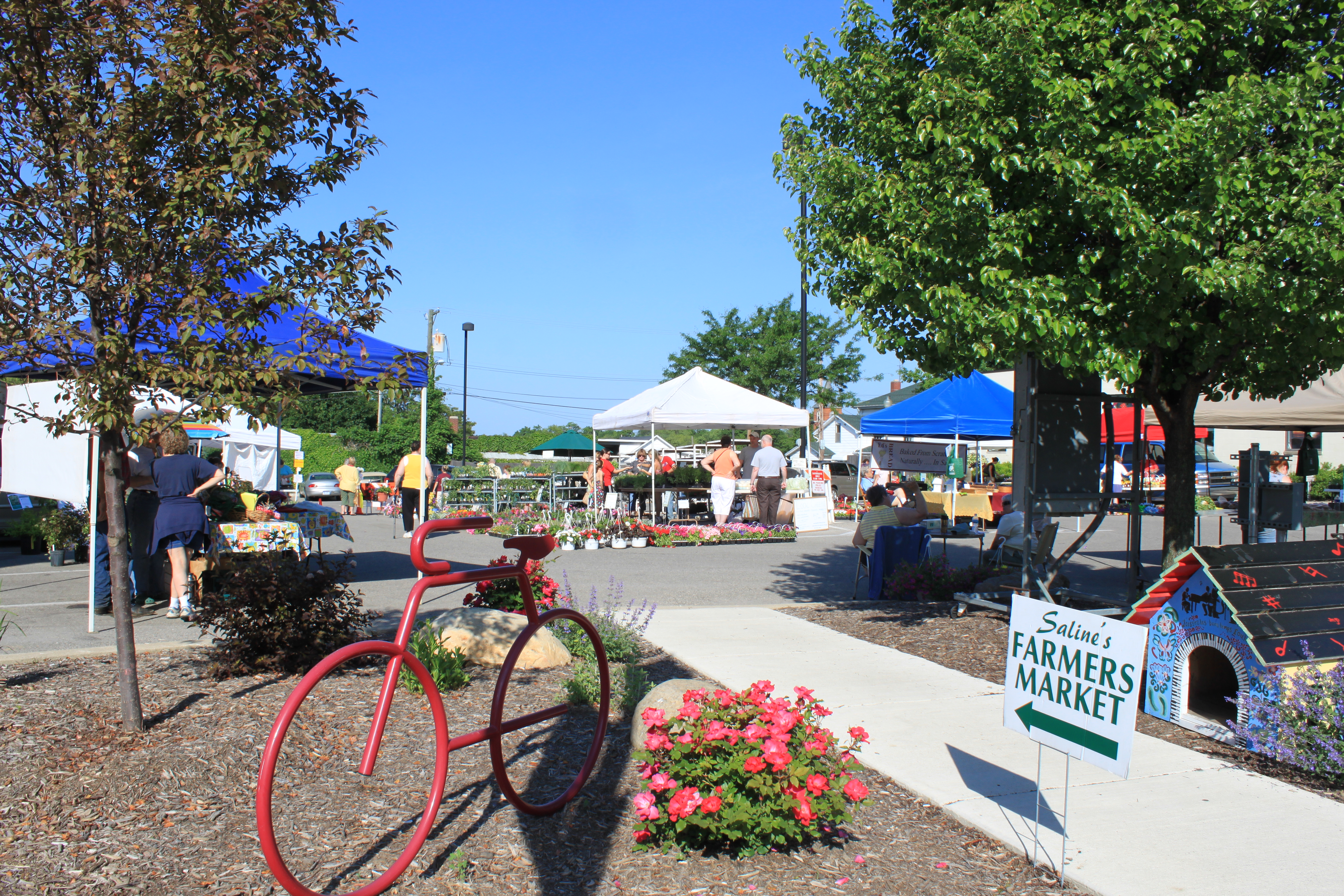 Saline, Michigan Farmers market